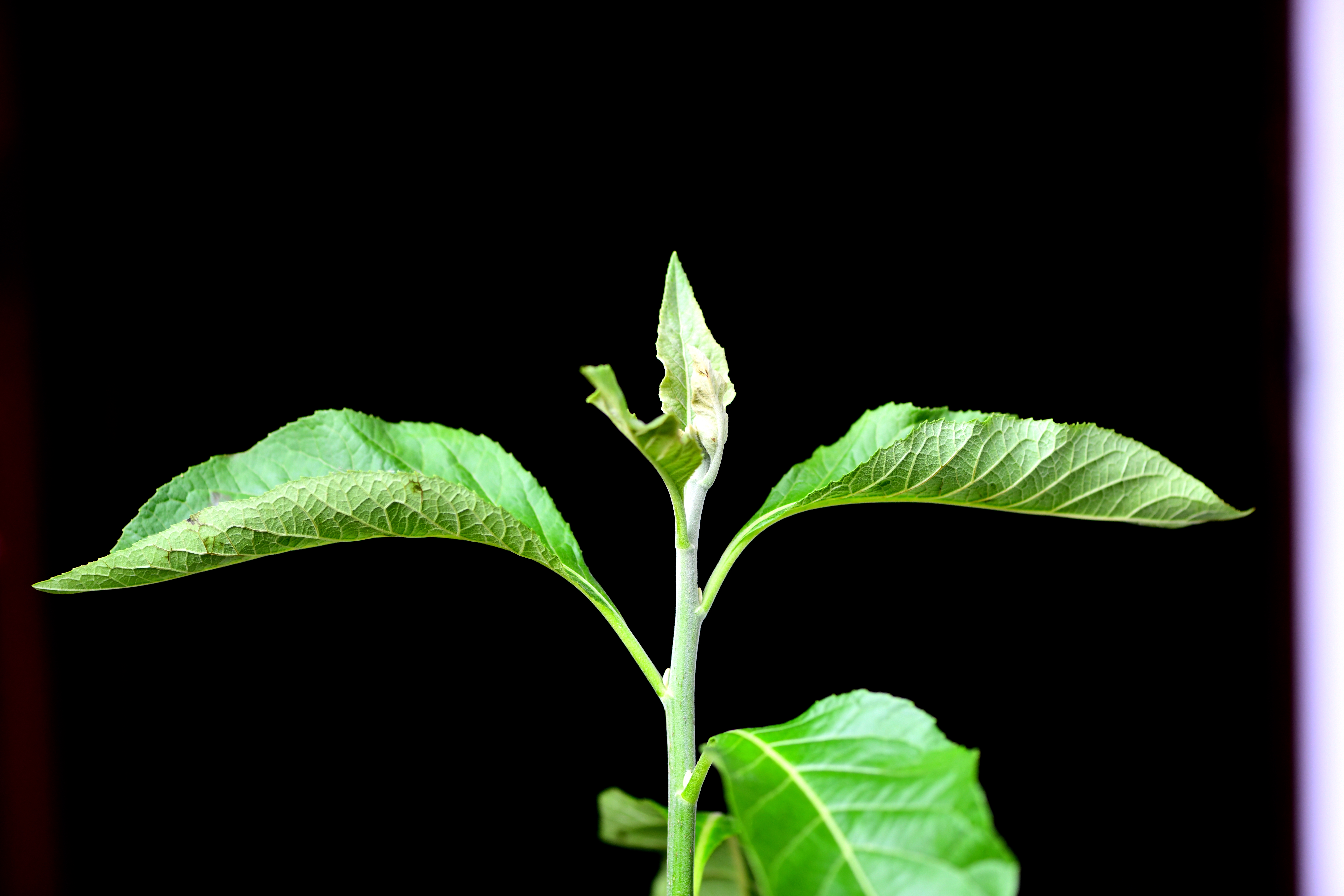 Bitterleaf หนานเฉาเหว่ย From Thailand. Herbal for Life.